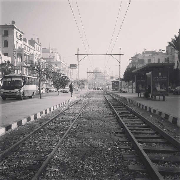 The Basilique Church, Heliopolis